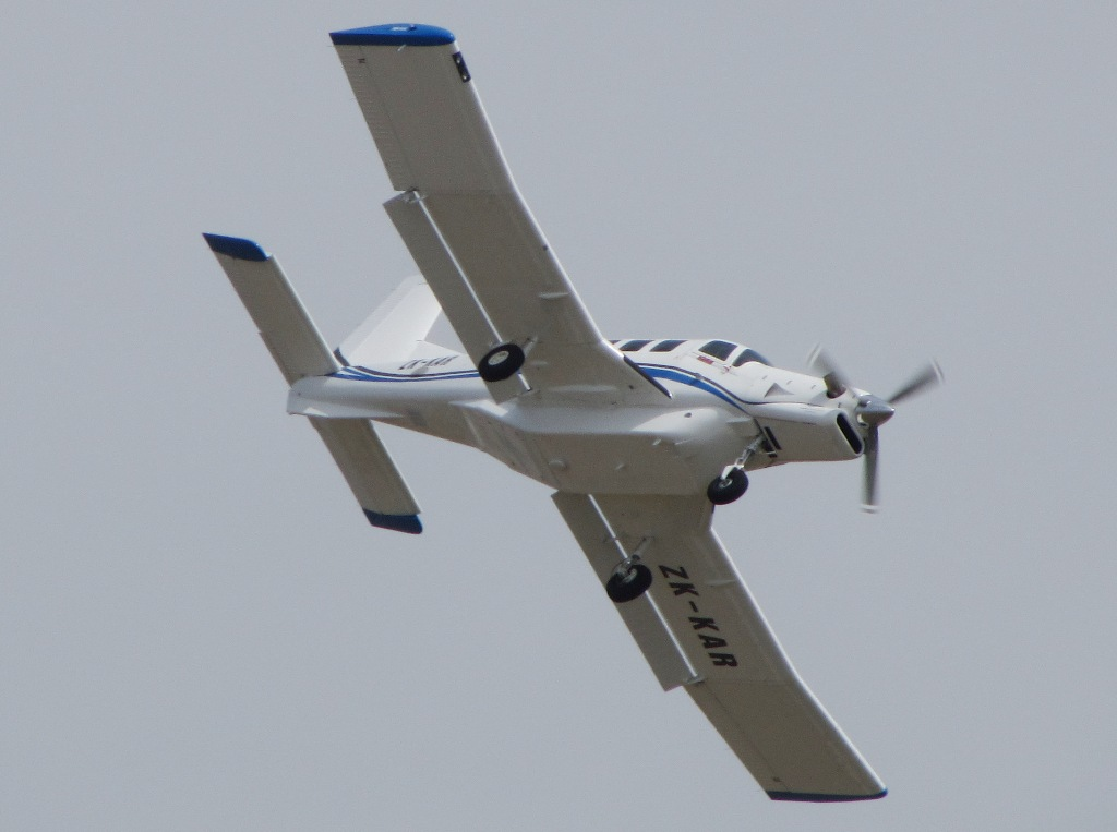 PAC P-750 XSTOL